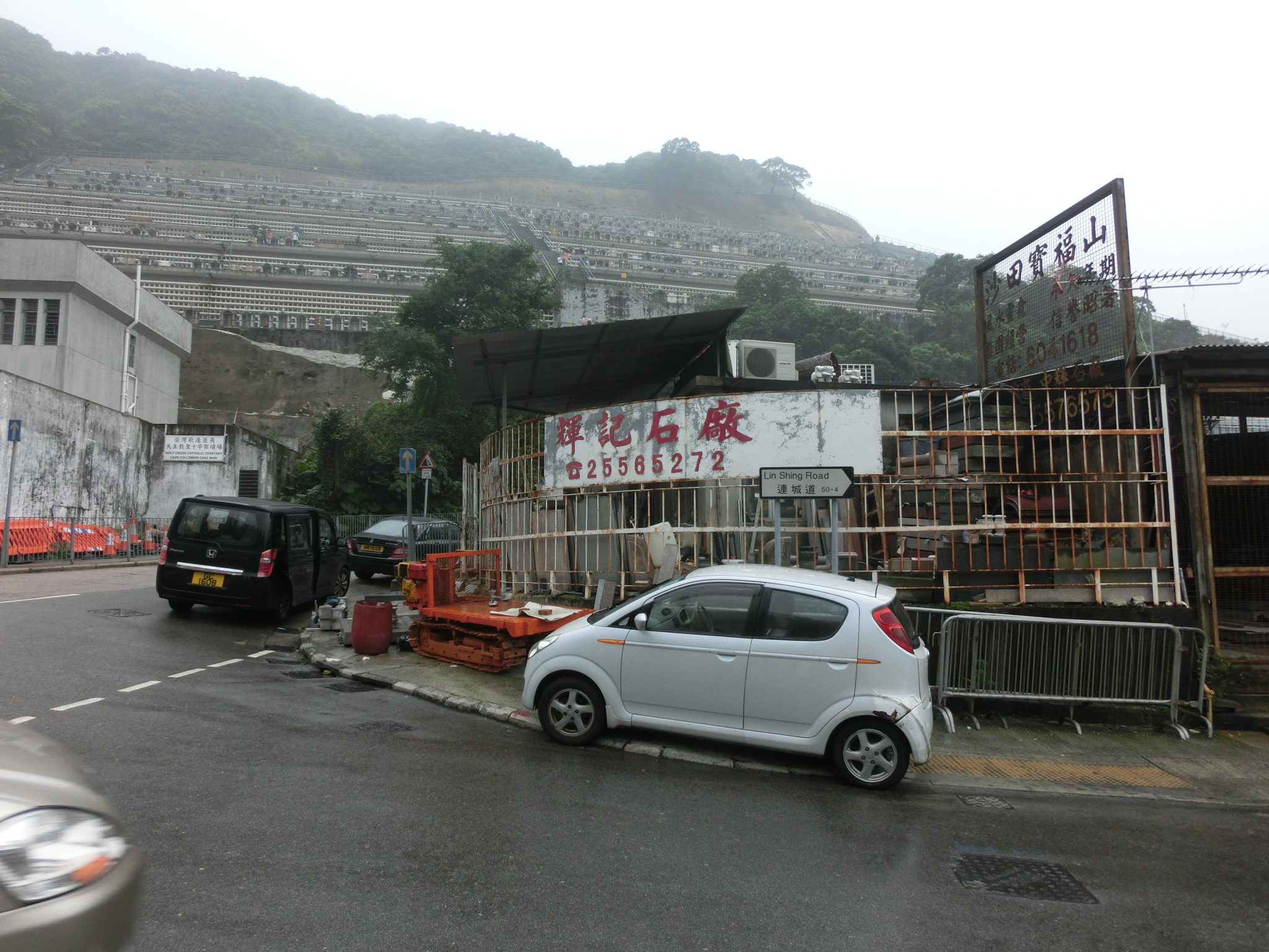 柴灣 Stone workshop, Lin Shing Road, Chai Wan, Hong Kong